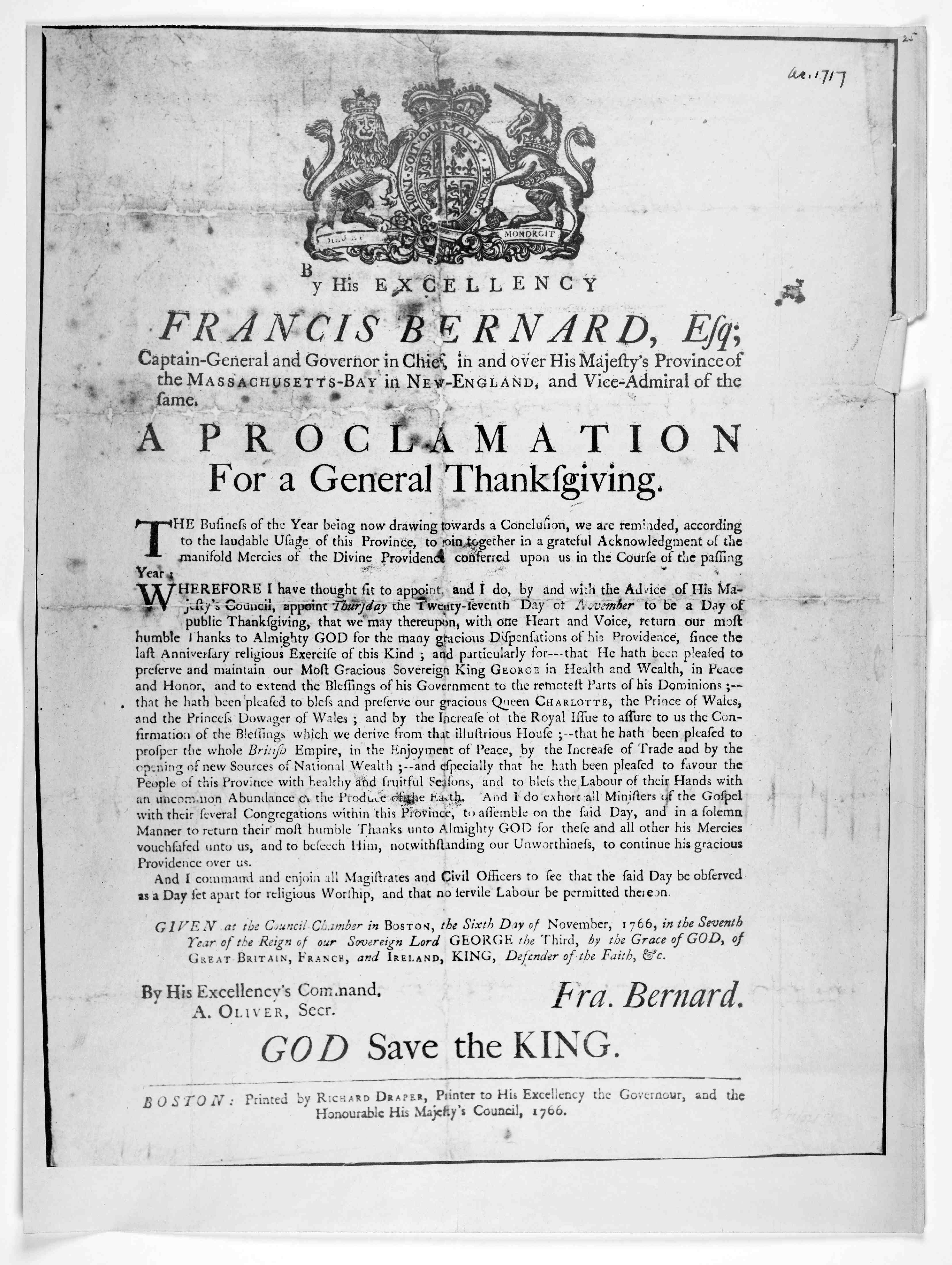 Proclamation for a General Thanksgiving by Governor Francis Bernard of the Province of Massachusetts Bay. Image courtesy of the LIbrary of Congress, Washington, D. C